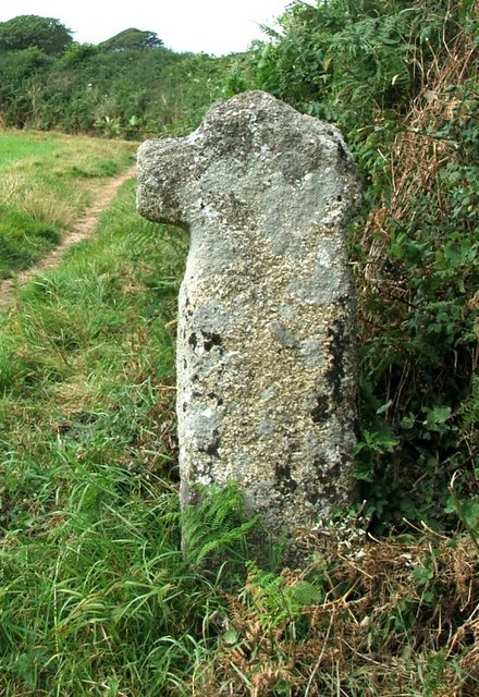 Boscathnoe Cross Mutilated Latin cross beside the footpath from Boscathnoe Lane to Madron church.cross